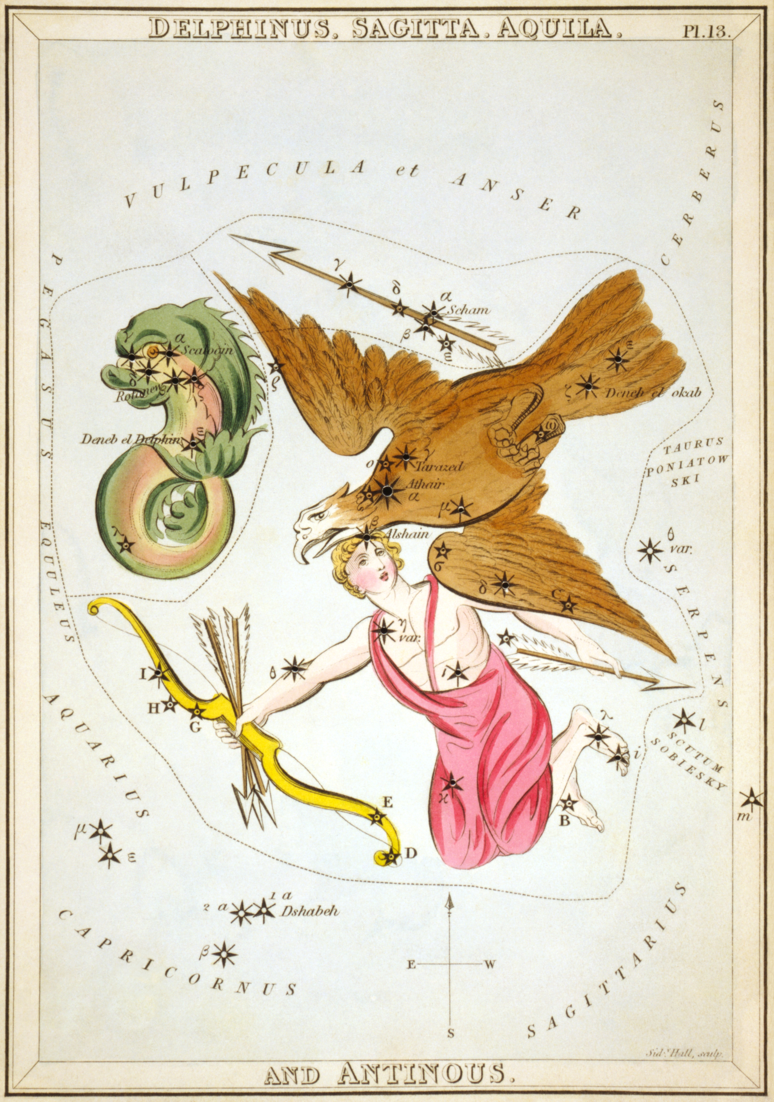 "Delphinus, Sagitta, Aquila, and Antinous", plate 13 in Urania's Mirror, a set of celestial cards accompanied by A familiar treatise on astronomy ... by Jehoshaphat Aspin. London. Astronomical chart, 1 print on layered paper board : etching, hand-colored.